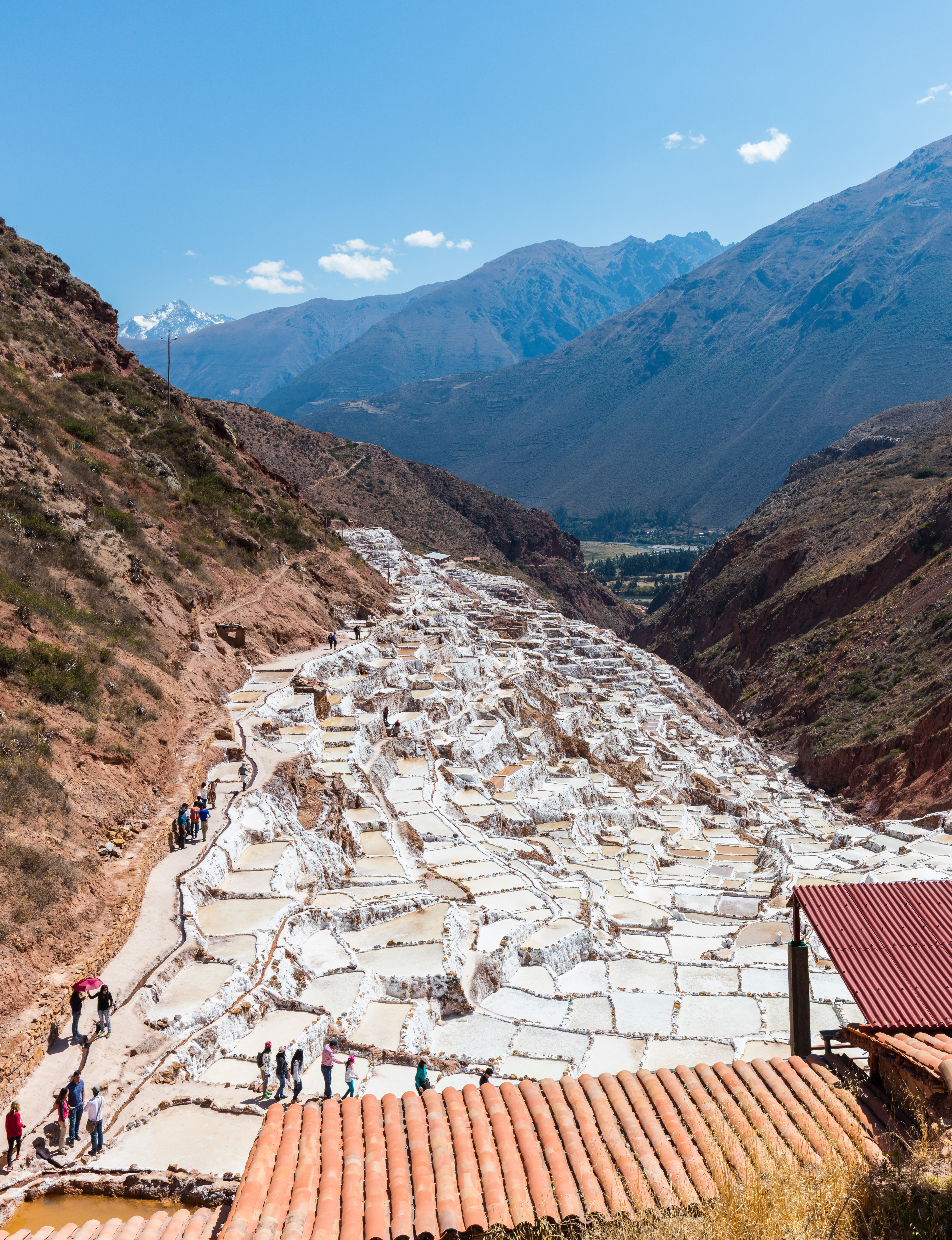 Salineras (salt evaporation ponds) in Maras, Peru